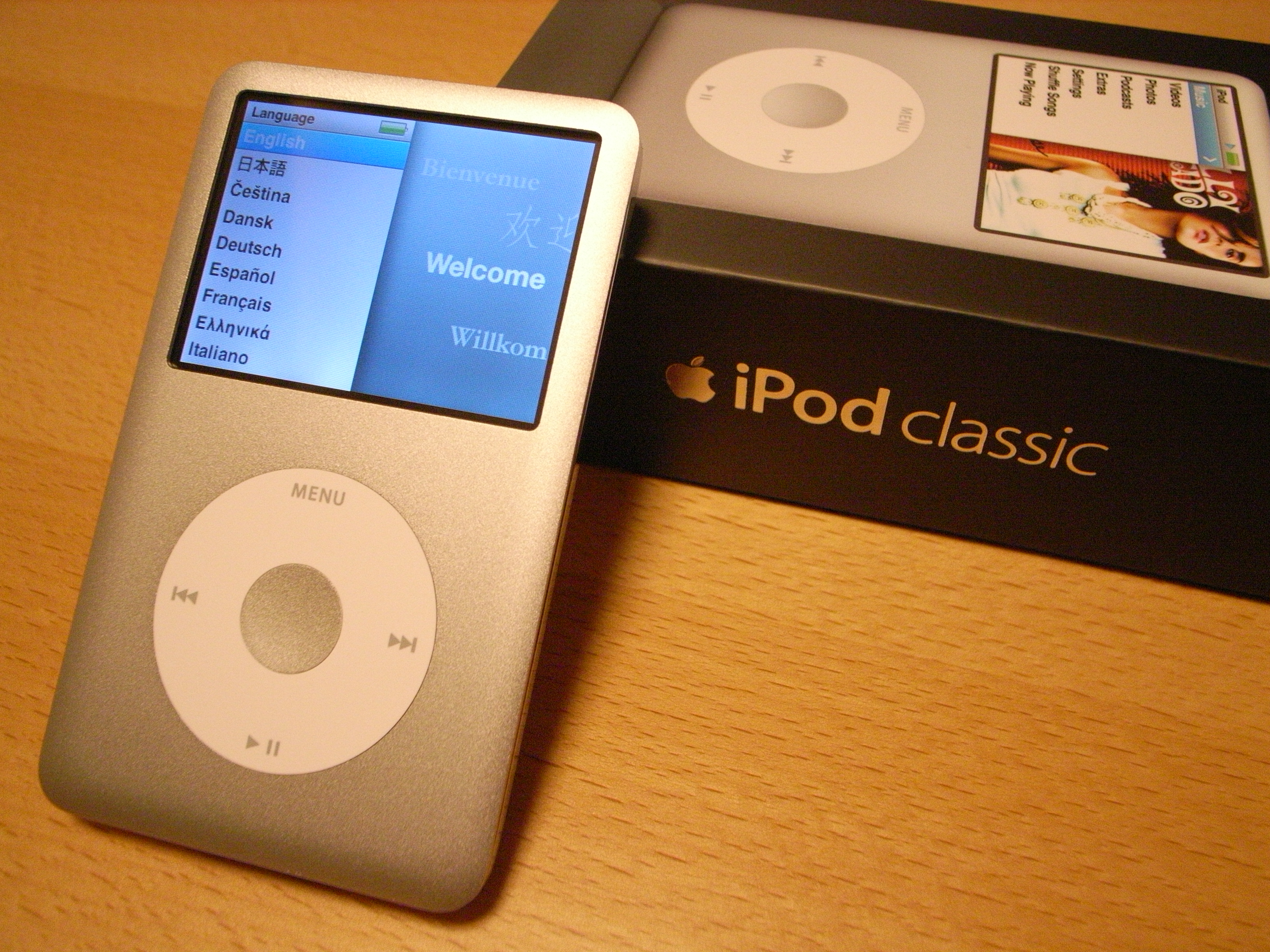 iPod classic (6G 80GB) and packaging